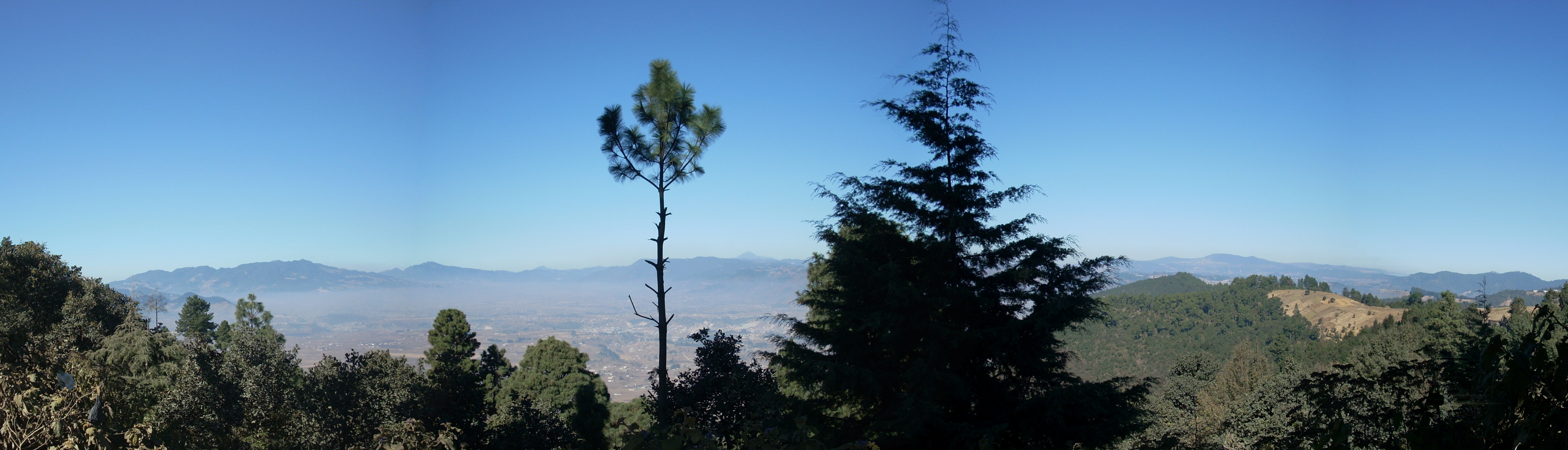 View of the Sierra Madre de Chiapas in Guatemala, from the La Pistola viewpoint on the CA1 Inter-American Highway in Guatemala, looking towards the Quetzaltenango and Salcajá valleys. The mountain to the left is the Siete Orejas volcano. The cone of the Tajumulco volcano is visible in the far distance in the centre of the photo.